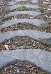 Section of track from a U.S. armored vehicle that was hit and burned on the road leading out of the Kall River Valley to Schmidt in the Huertgen Forest. The section of track has melted into the road.